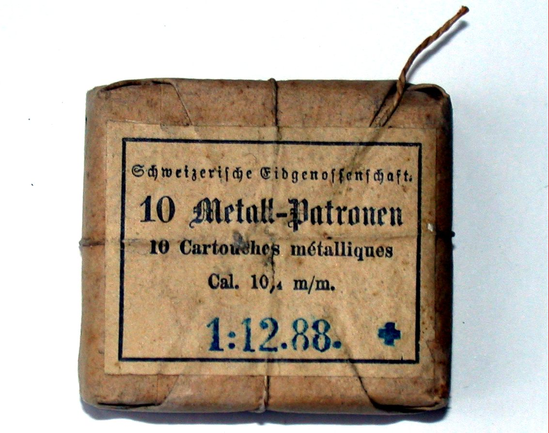 Vetterli 10-round package